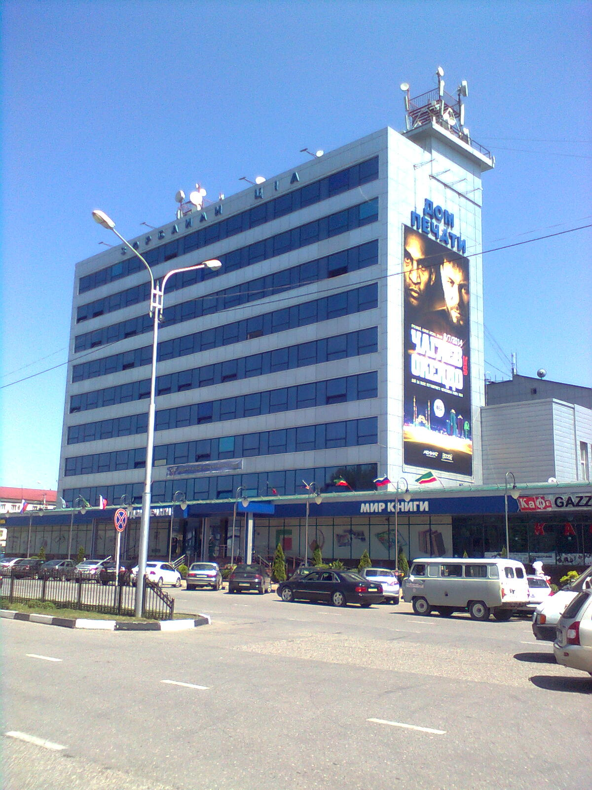 Grozny Publishing House